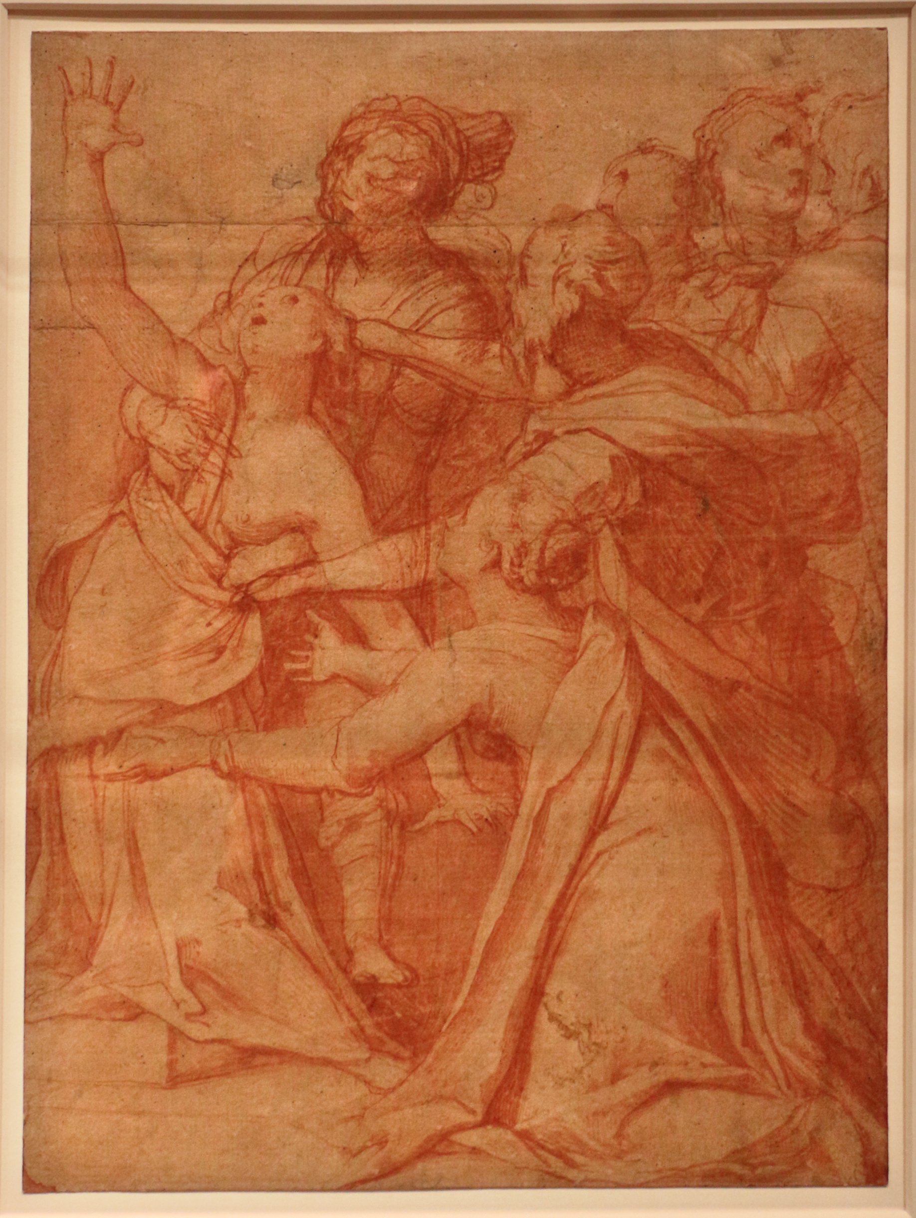 Drawings in the Cleveland Museum of Art